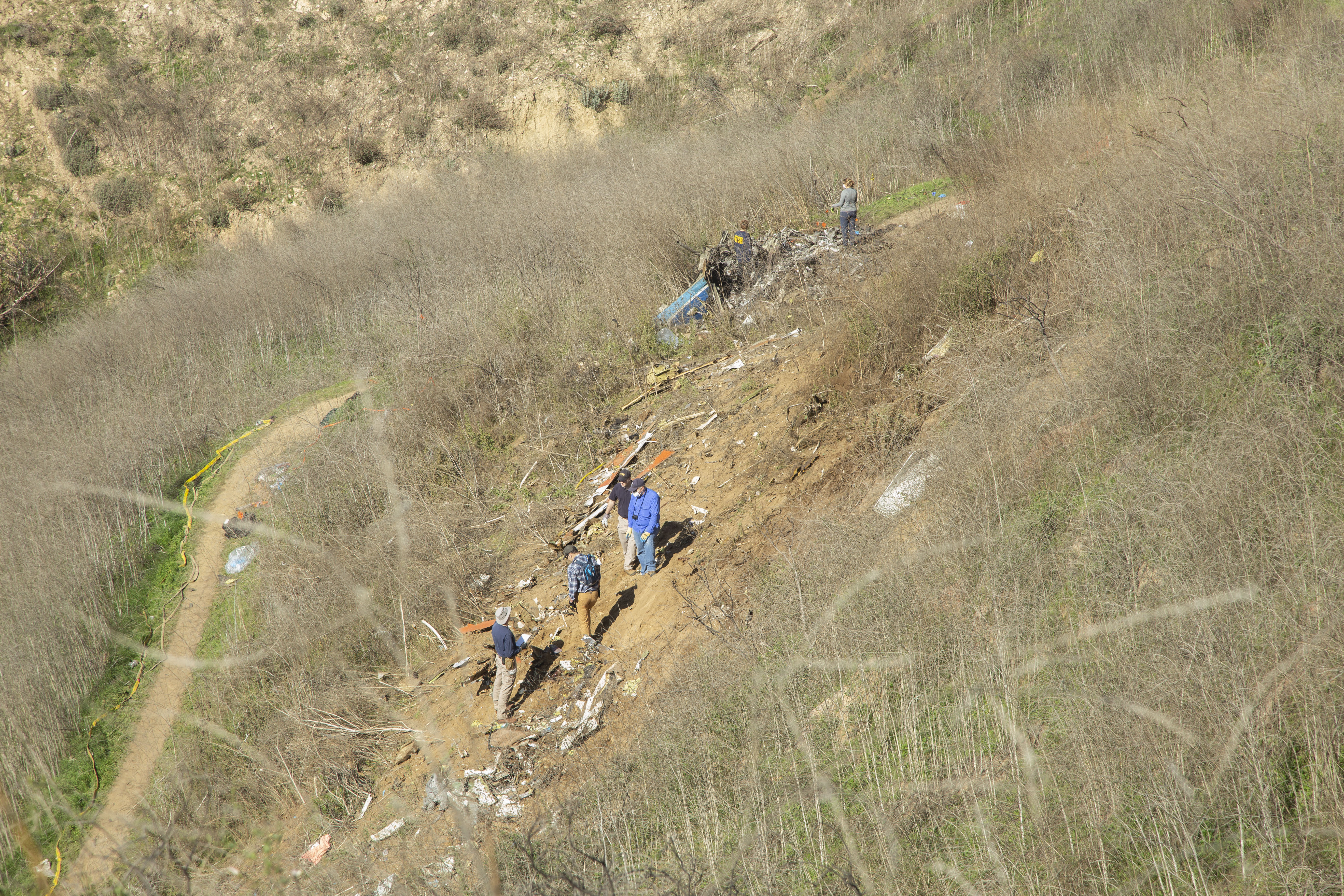 CALABASAS, California (Jan. 28, 2020) — The extent of the debris field from the Jan. 26, crash of a Sikorsky S76B helicopter near Calabasas, California, can be seen in this photo taken Jan. 27. Documentation of the debris field is a standard practice in NTSB crash investigations. The eight passengers and pilot aboard the helicopter were fatally injured and the helicopter was destroyed. (NTSB photo by James Anderson)